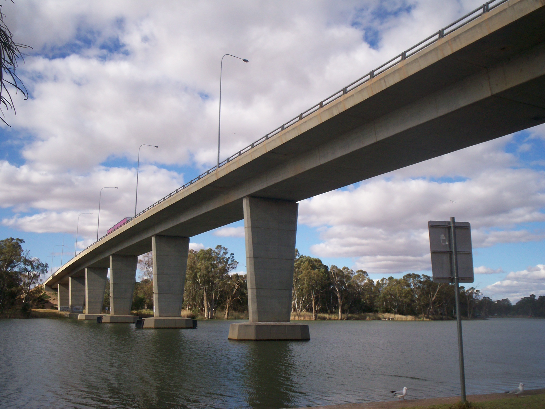 Chaffey Bridge, from Mildura, Victoria, Australia. Photograph taken by myself, September 26, 2007.